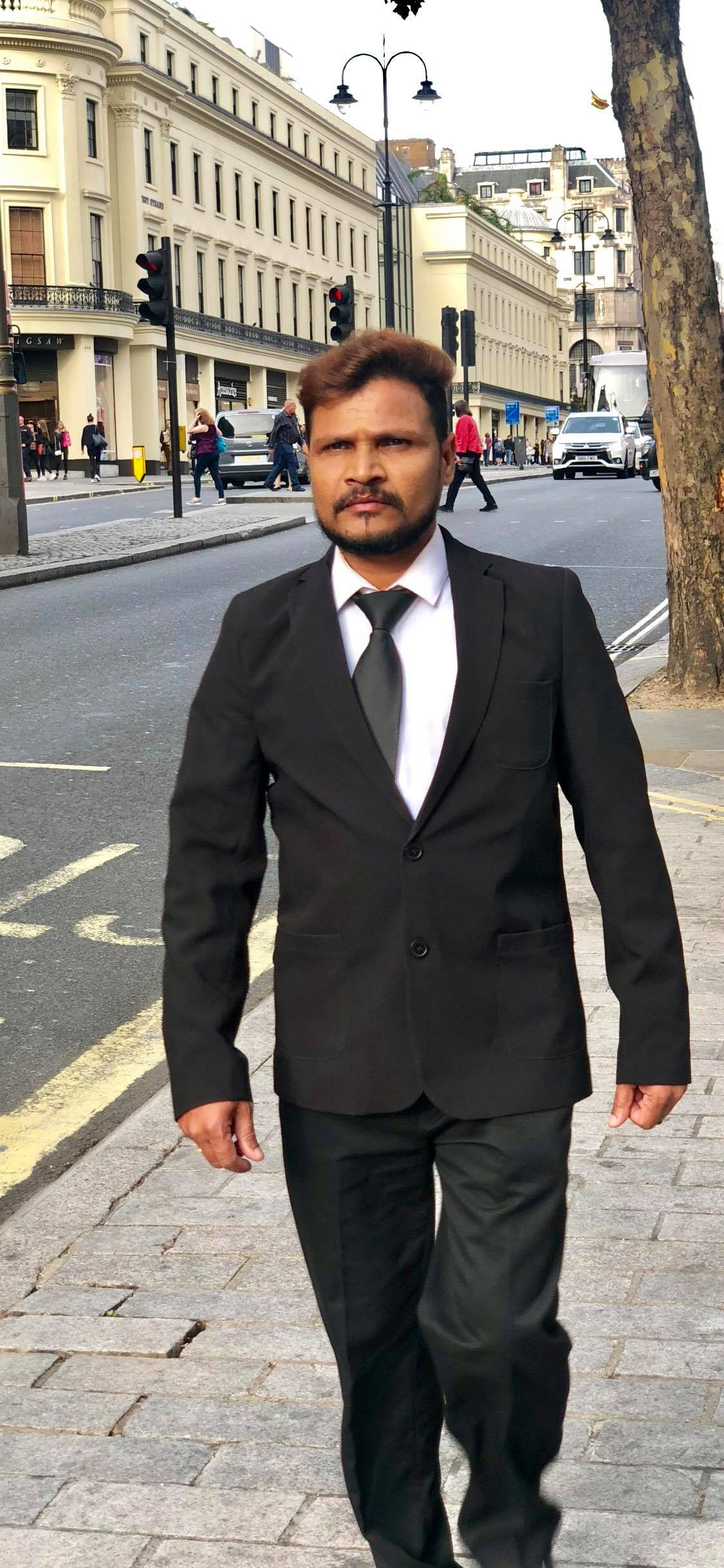 During the shoot for Password in 2017.